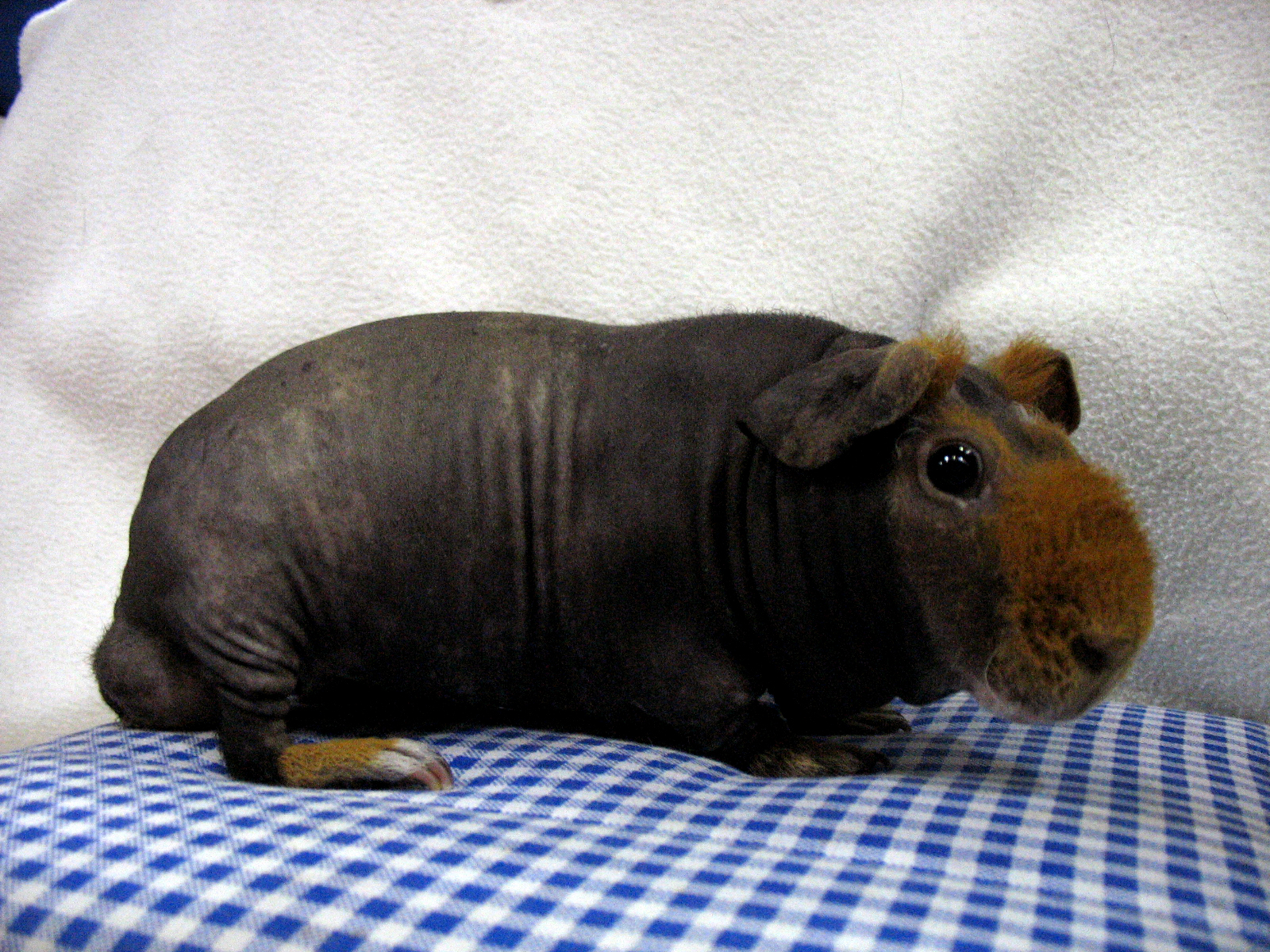 Skinny breed cavy male Fin Ch E-pet NordV-09 VV8-09 VV8-10 VVpet-09 VVpet-10 GGpet-08 GGpet-09 MHPC's Rock With Me! (finnish champion, elite pet, double Grand Gala winner, double winner of the year pet, nordic championship winner and double 8. best cavy of the year)